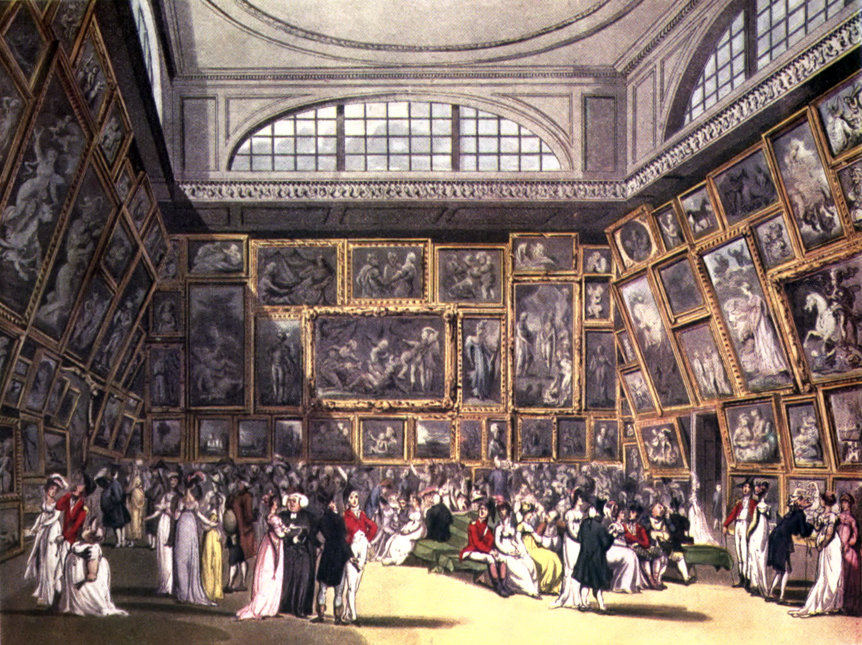 Exhibition at Somerset House